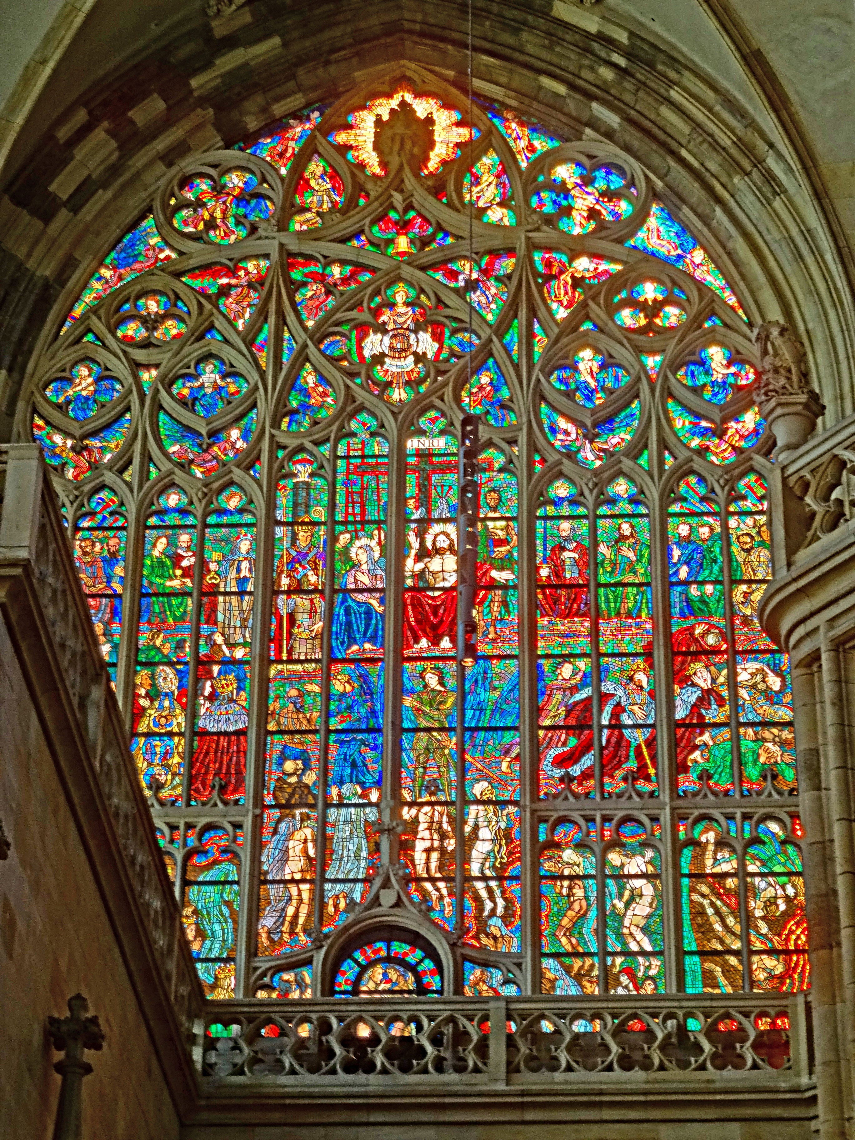 Stained glass window above the Golden Gate of the Prague St. Vitus Cathedral